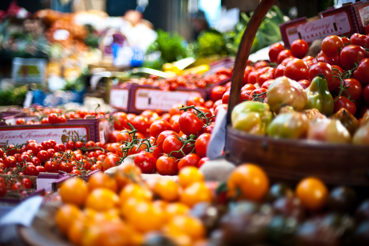 Photograph of tomatoes on a vegetable stall at Borough Market in London, UK